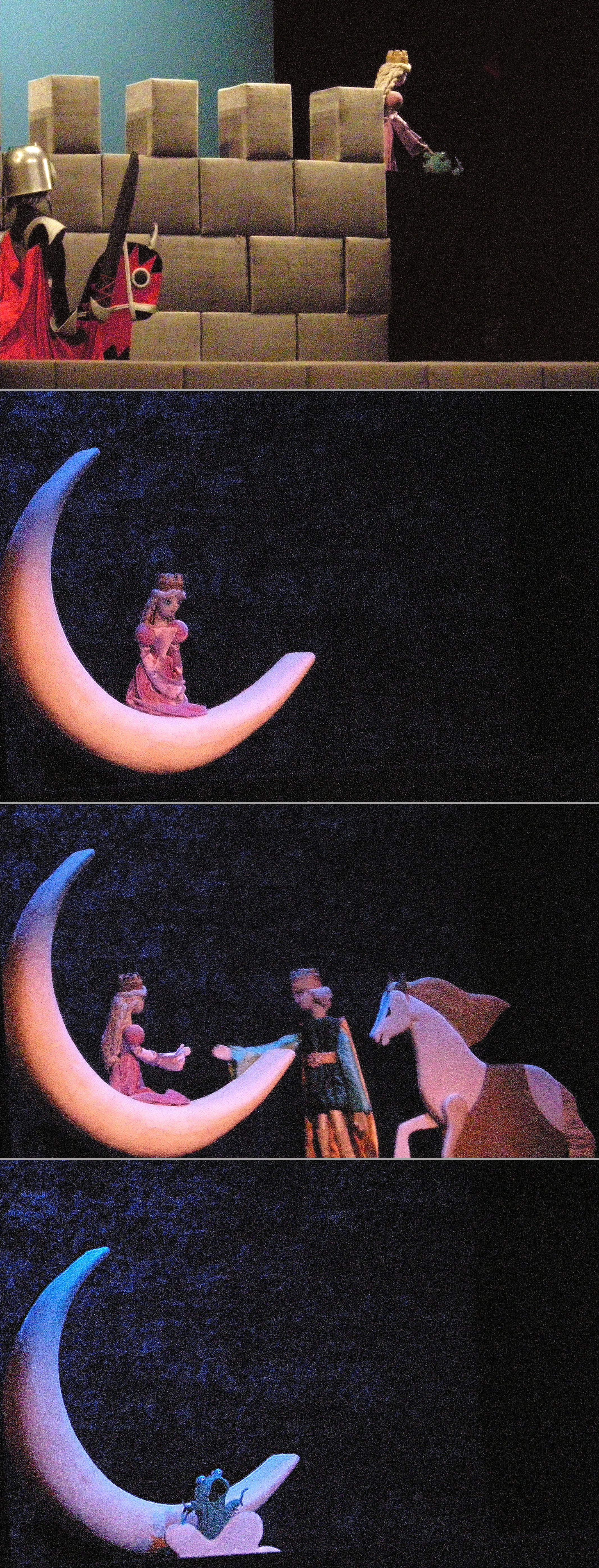 LILARUM theatre for children, Vienna, Austria. Performance of 'Der kleine Monddrache' (The Little Moon Dragon